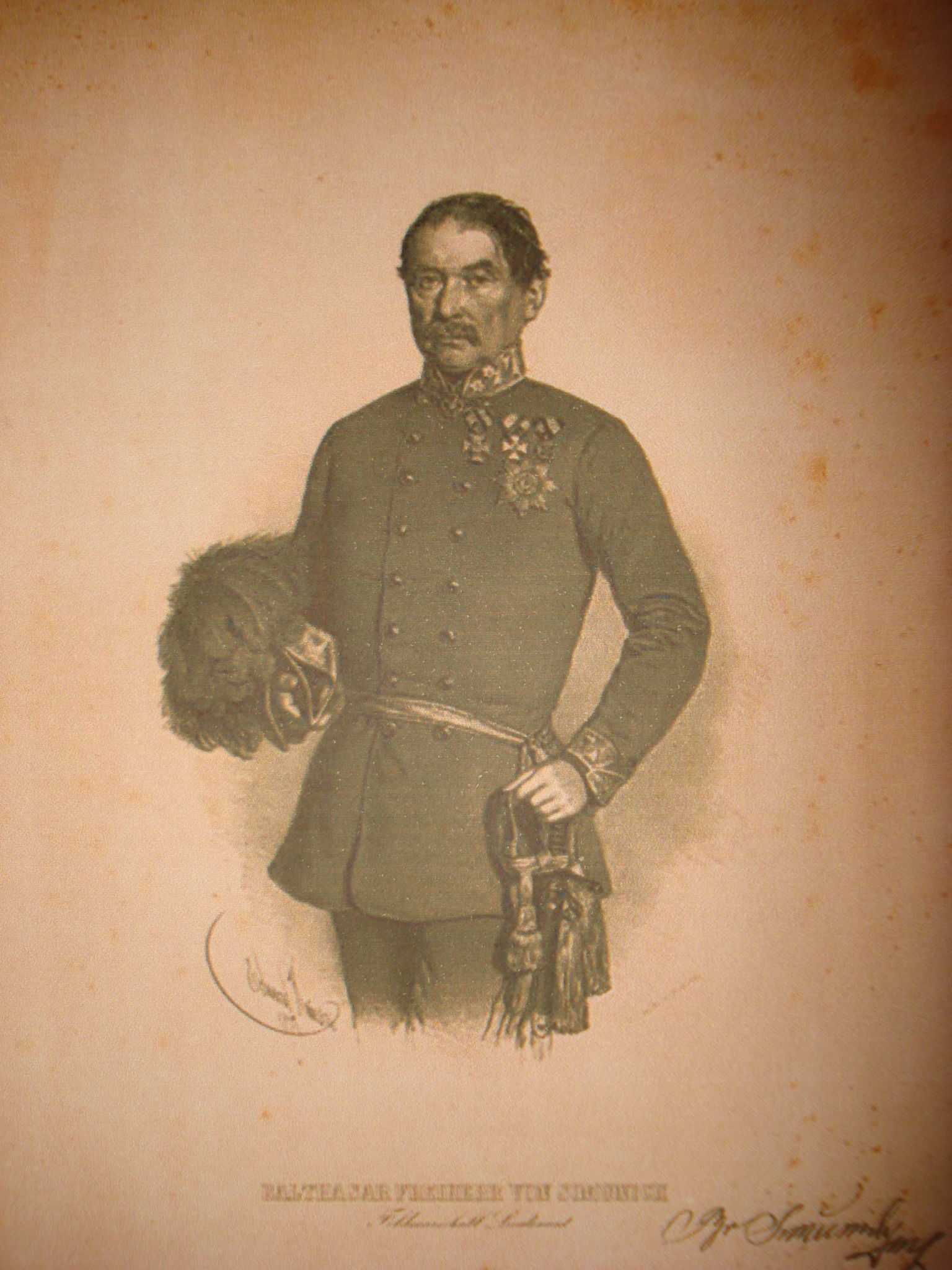 Baron Baltazar Šimunić /Balthasar Shimunich/ (1785-1861), Croatian general in the Habsburg Monarchy imperial army serviceHrvatski: Barun Baltazar Šimunić (1785-1861), hrvatski general u službi carske vojske Habsburške Monarhije